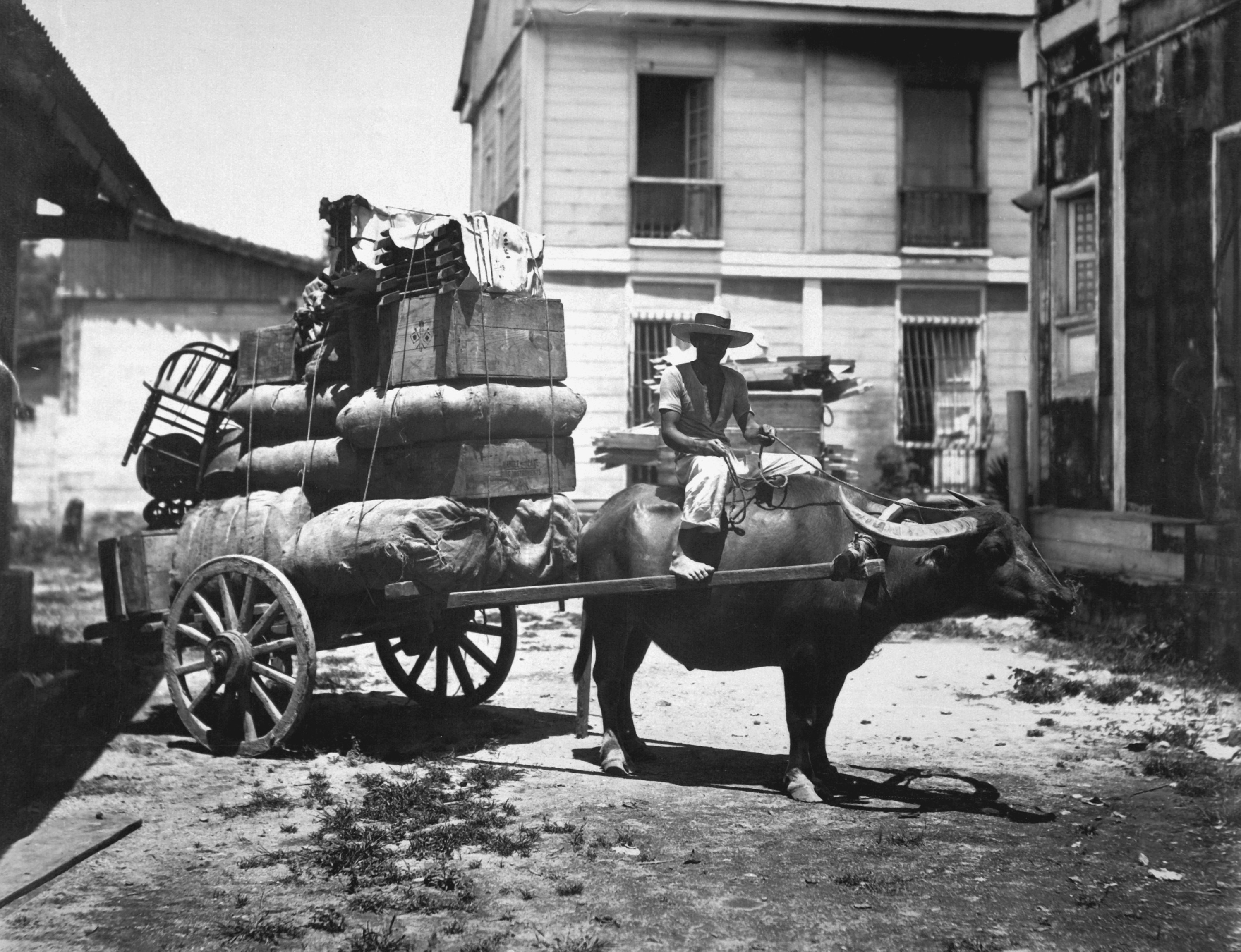 Transportation of Army supplies by Carabao (Water ox) cart in Phillippine